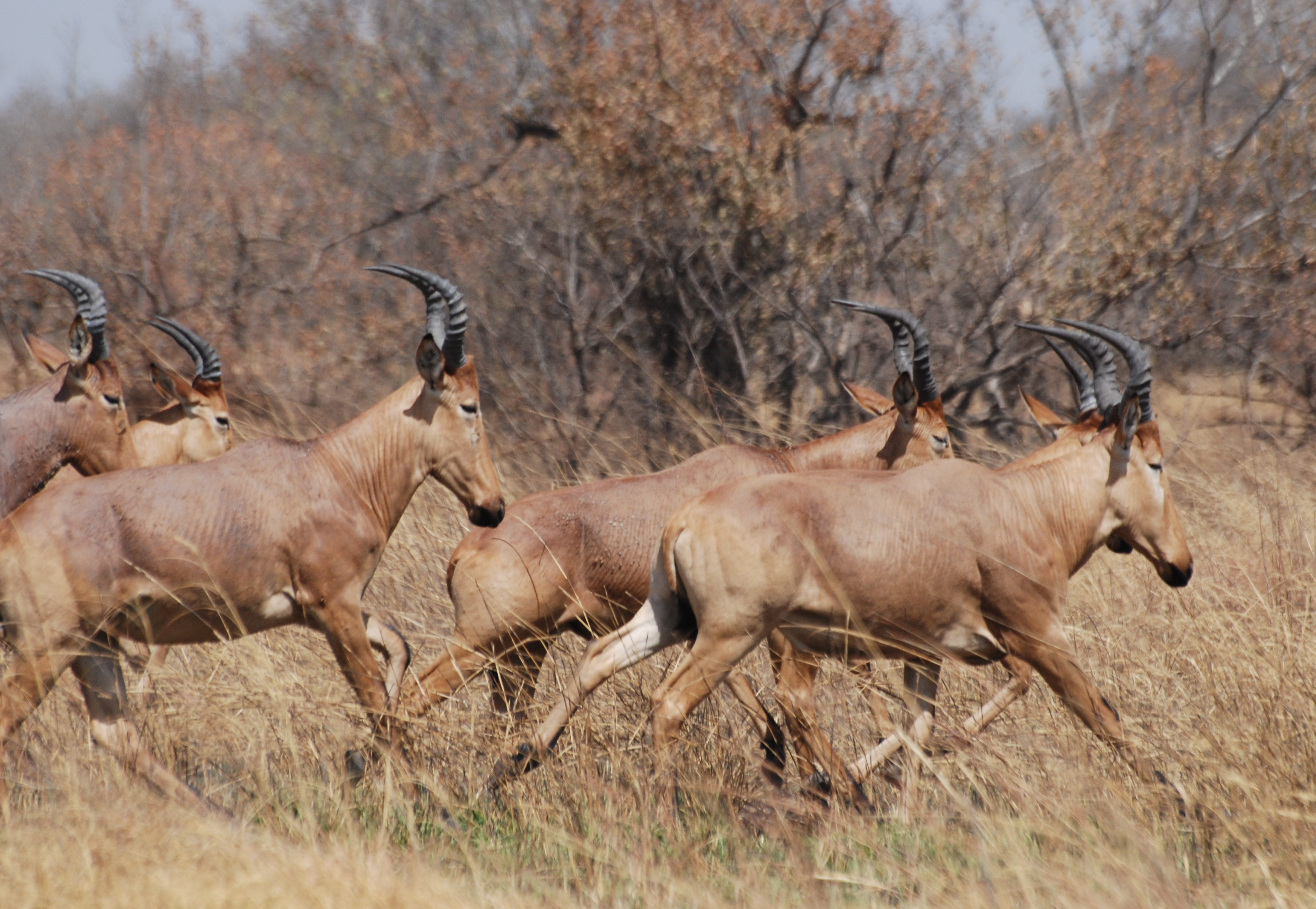 Alcelaphus buselaphus herd in the Pendjari Nationalpark Benin, West Africa